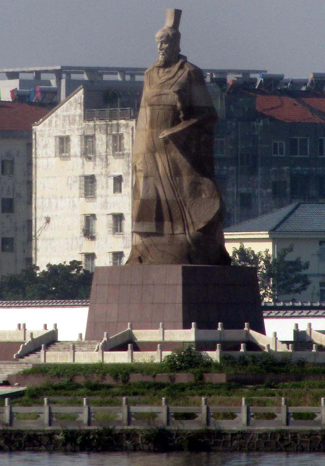 Large statue of Qu Yuan (屈原), a courtier and poet from the Warring State of Chu (楚国), in Jingzhou (荆州), China, at the site of the former Chu capital Ying (郢). Qu Yuan is generally credited with inspiring the modern Dragon Boat Festival.